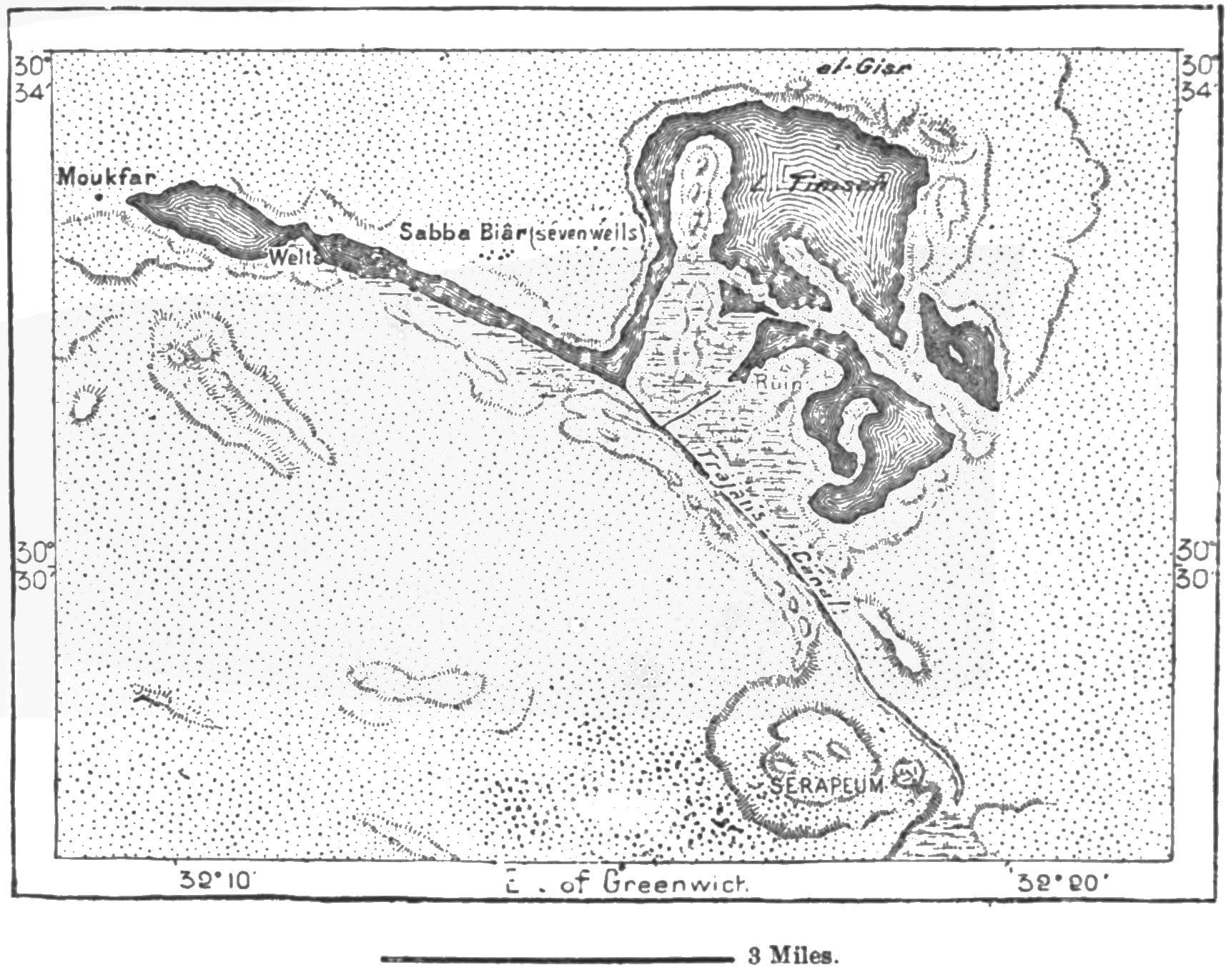 Lake Timsah